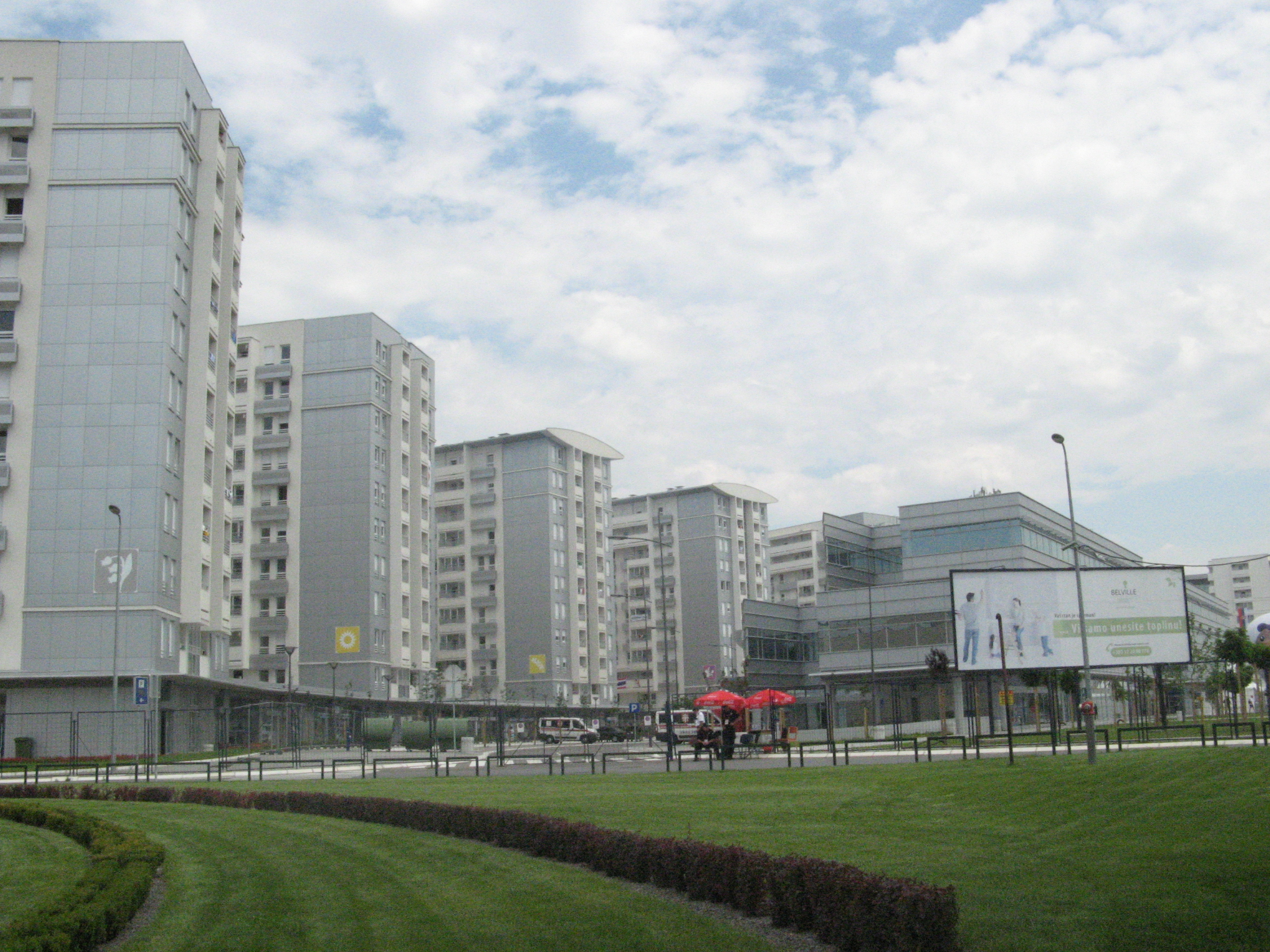 Belville: 2009 Summer Universiade, Belgrade; Dormitory/apartment buildings for sportsmen and sportswomen.